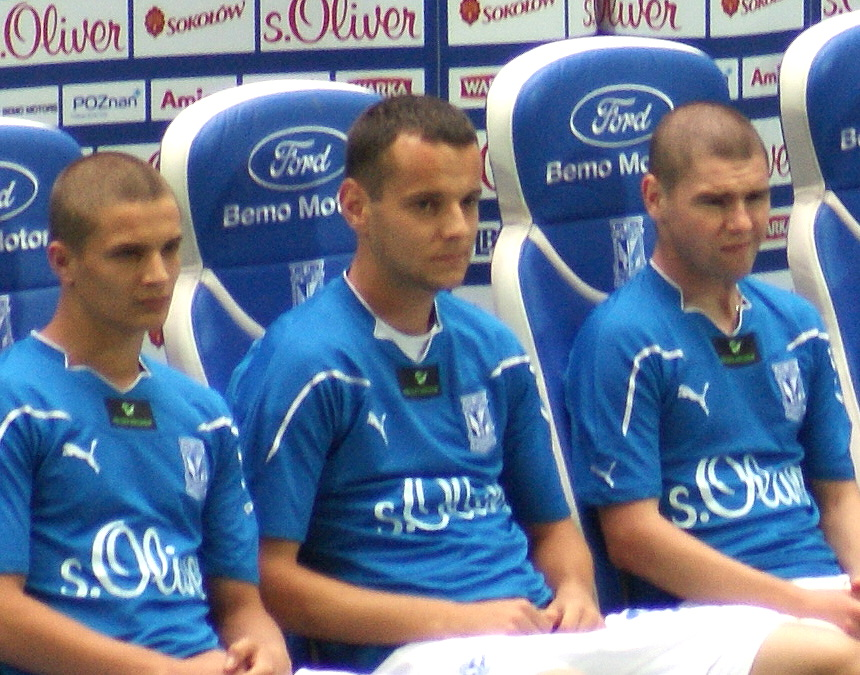 Players of Lech Poznań: Bereszyński, Mikołajczak, Chrapek.